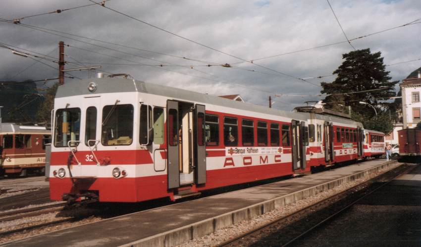 A train of the Aigle–Ollon–Monthey–Champéry Railway in Aigle, Switzerland Source: Martin Hawlisch (User:LosHawlos) My own photo